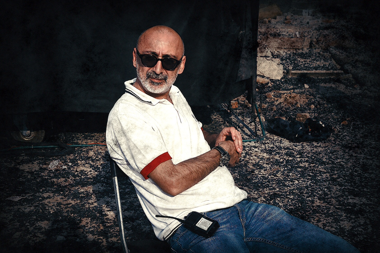 Мелькумов Сергей на съёмках фильма "Сталинград"